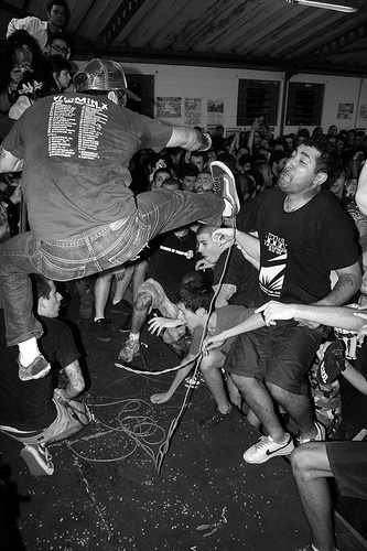 Point of No Return's last show at Verdurada